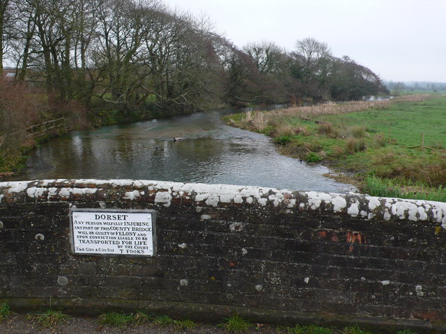 Thomas Hardy Locations, Tess of the Durbervilles (1) This is the view of the Vale of Frome from the bridge at Lower Bockhampton. In the novel, the twenty year old Tess journeys to the lush Froom Valley. It is known as the Vale of the Great Dairies, in comparison to Tess's home, the fertile Vale of Blackmore, which is known as the Vale of Little Dairies. The building through the trees is Kingston Dairy House one of the Great Dairies which Hardy would have known.